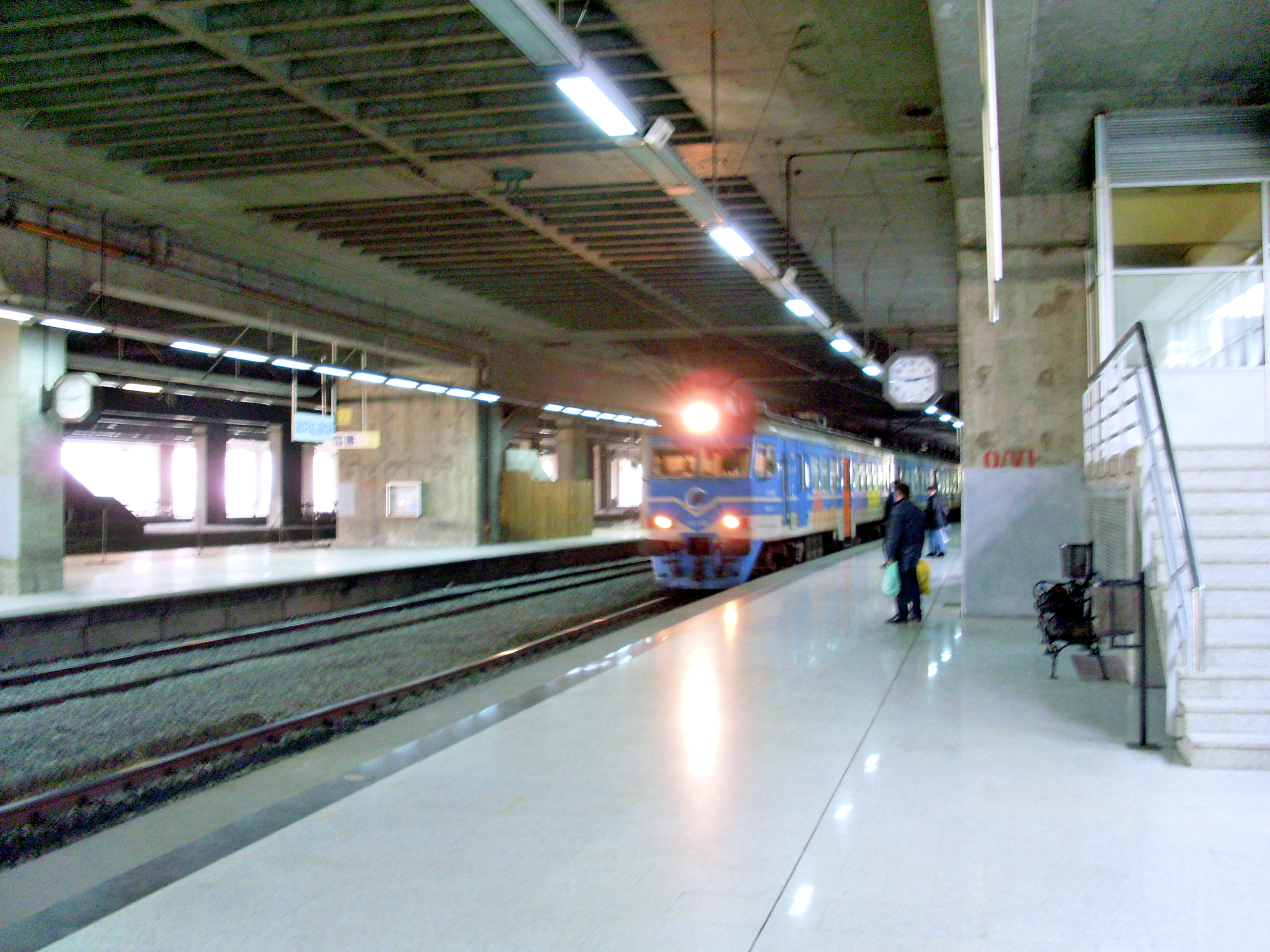 Beovoz entering Prokop railway station from Pancevo direction in Belgrade